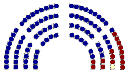 Breakdown of political party representation in the Virginia House of Delegates during the 1916-1917 Virginia General Assembly. Blue: Democrat (84) Red: Republican (15) Ivory: Independent (1)